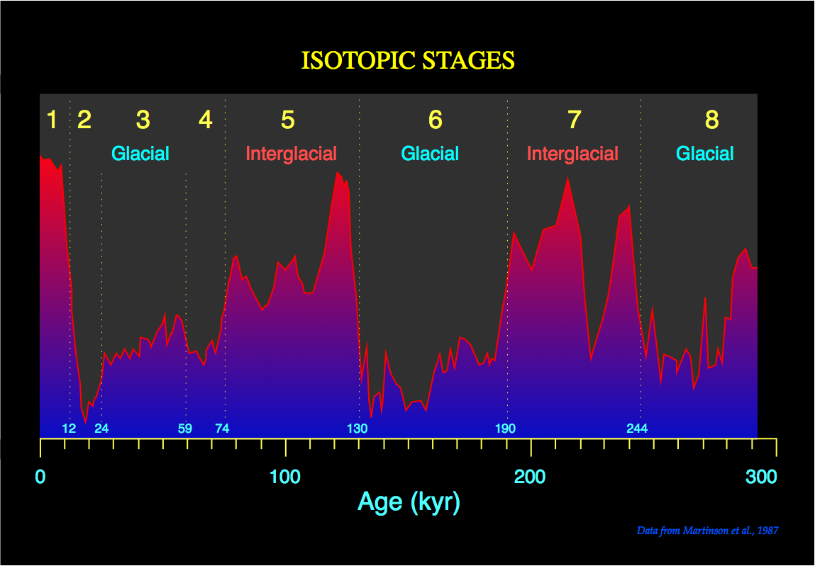 Stable oxygen isotope record of the last 300,000 years. The curve shows the last three glacial/interglacial cycles of the Quaternary. Blue is colder climate (glacial), red is warmer climate (interglacial); numbers are isotopic stages used in the dating (chronostratigraphy) of ocean sediments. The short term climatic changes of the Quaternary are induced by the Milankovitch cycles of the earth orbit.